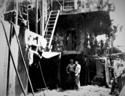 Cassin Young attacked by Kamikaze